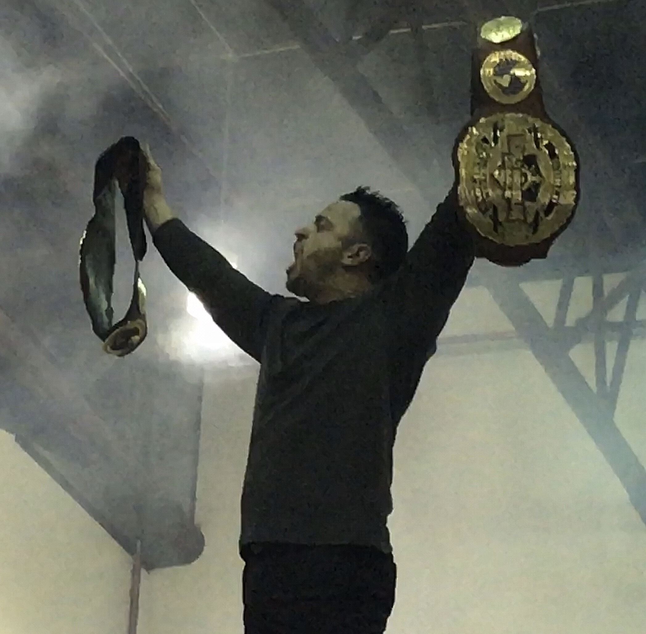 Profesional wrestler Richard Rondón with both of the WWL World Tag Team Championship belts.